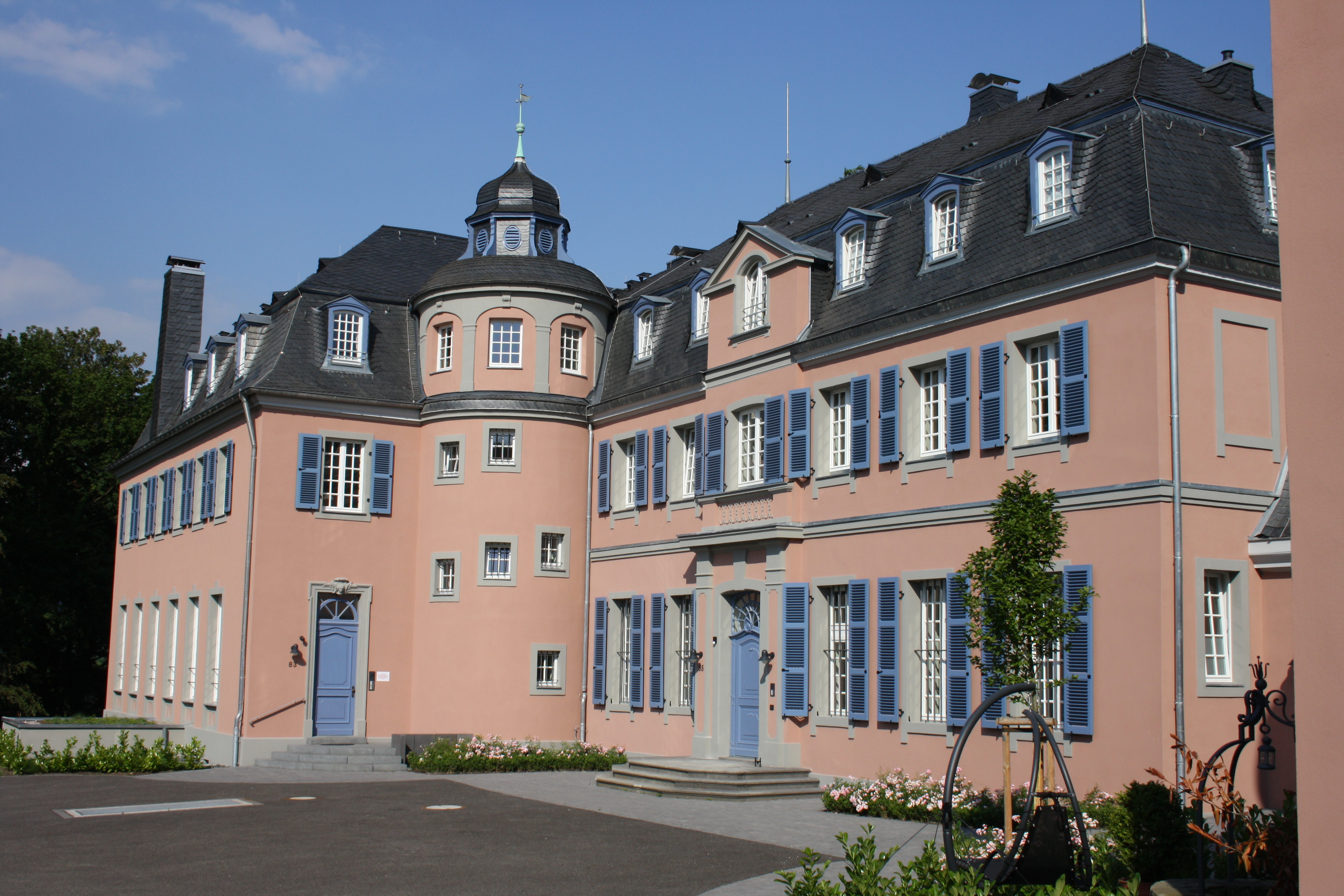 Bonn-Muffendorf in Germany, former commandery of the Teutonic Knights, built 1717-20, Belgian embassy 1952-199?